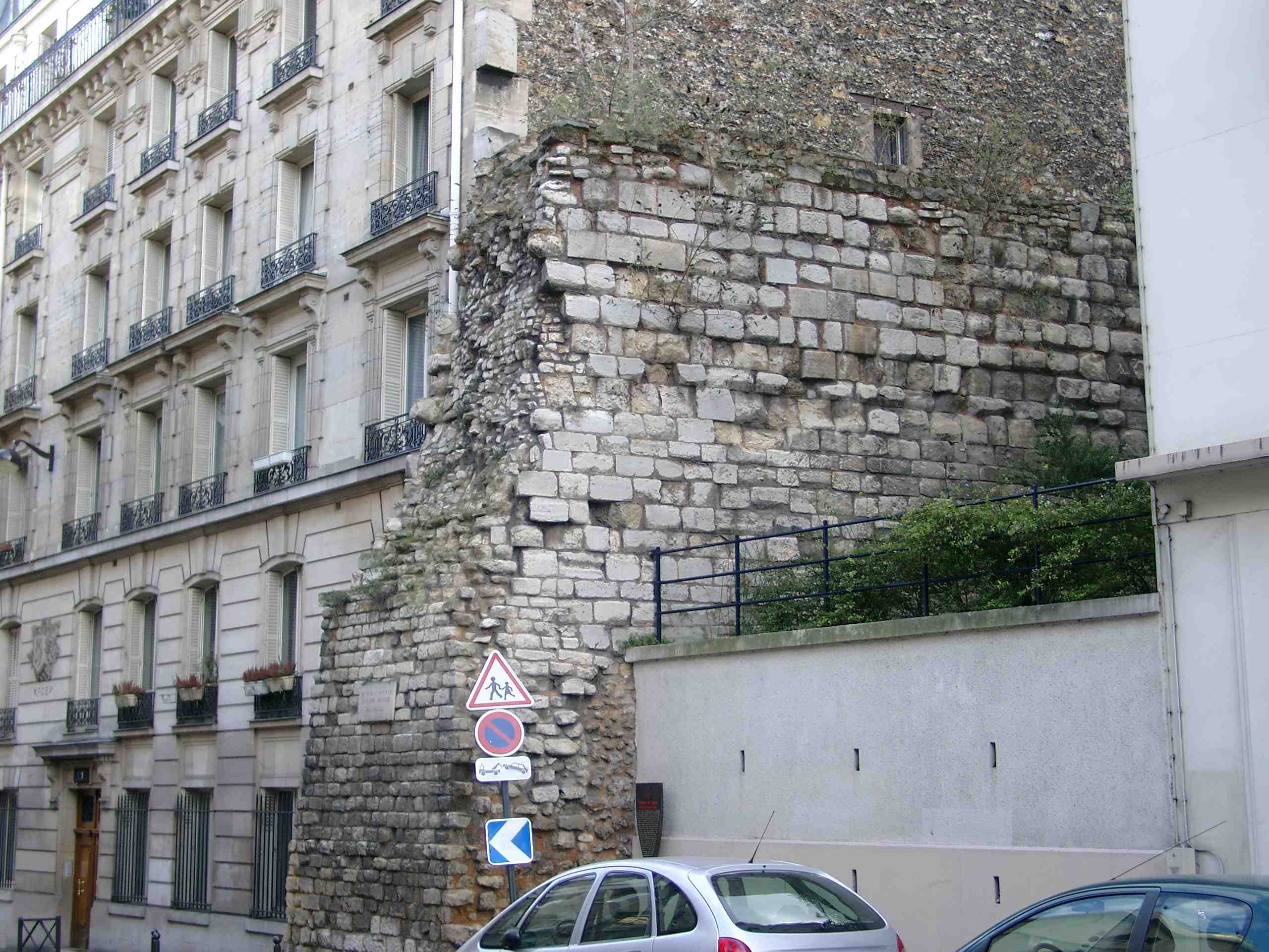 Remains of city walls of Philip Augustus, rue Clovis